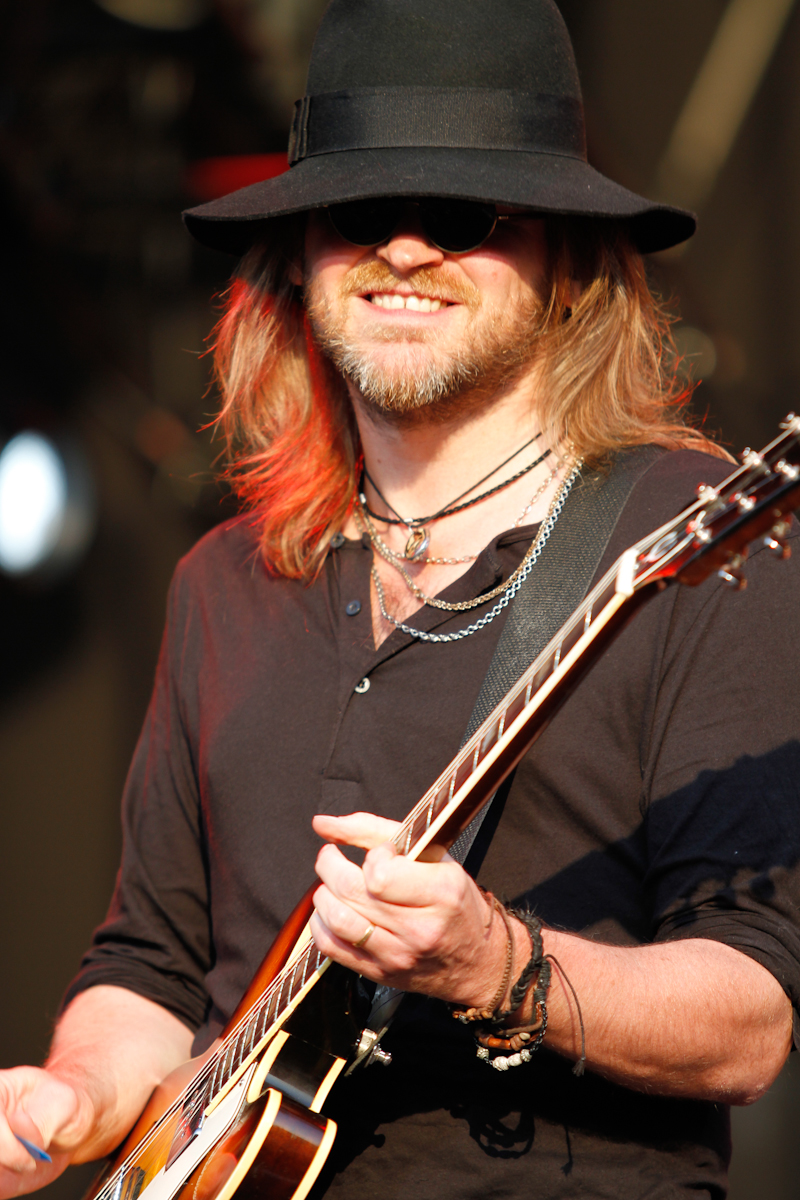 Christoffer Lundquist performing live on stage.